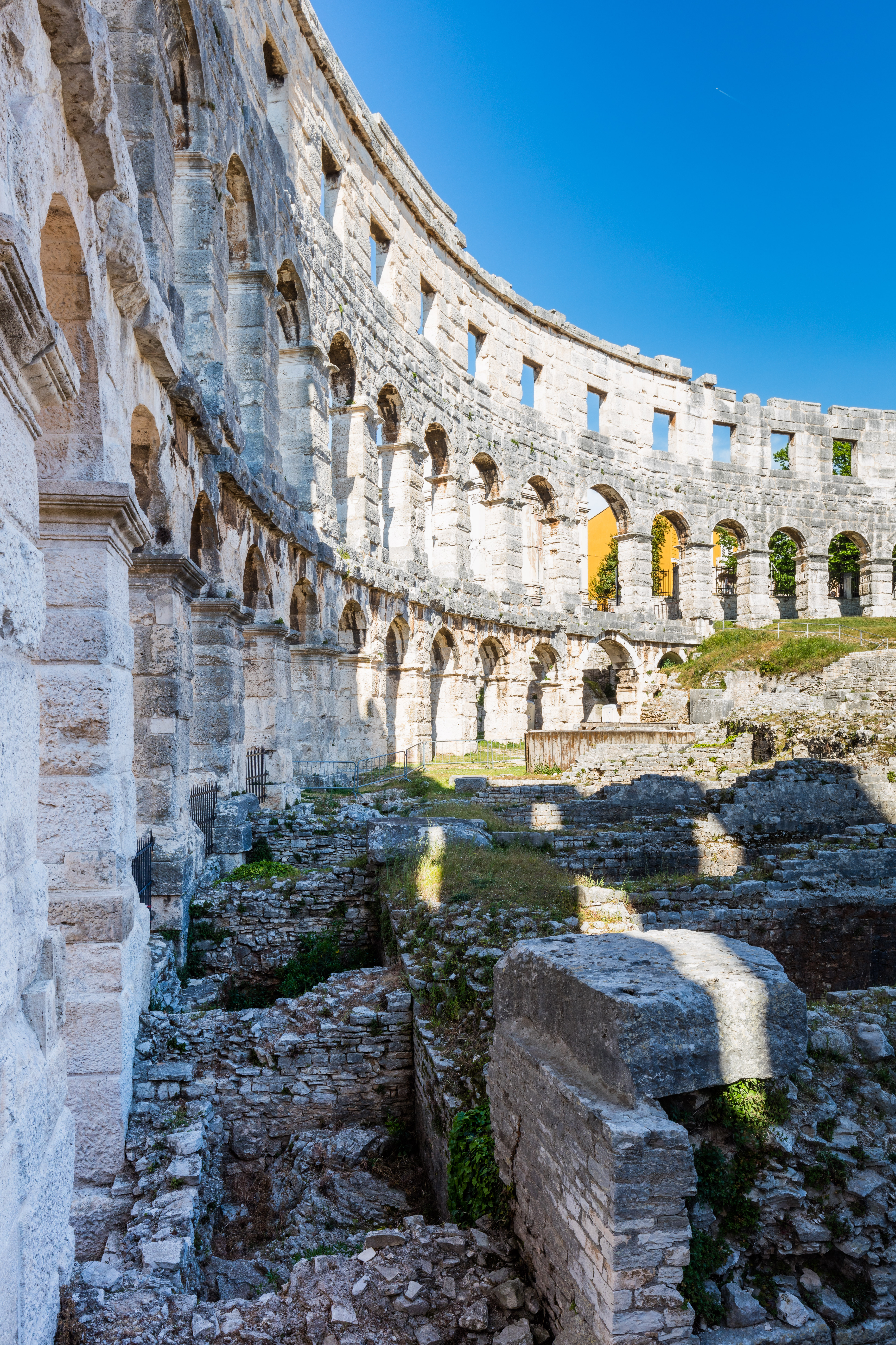 Pula amphitheatre, Croatia. This is a a photo of a cultural heritage in Croatia with ID: Z-863